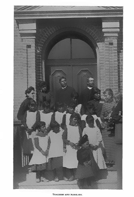 Rev. Sherman Coolidge, Teachers and Scholars Other information No.